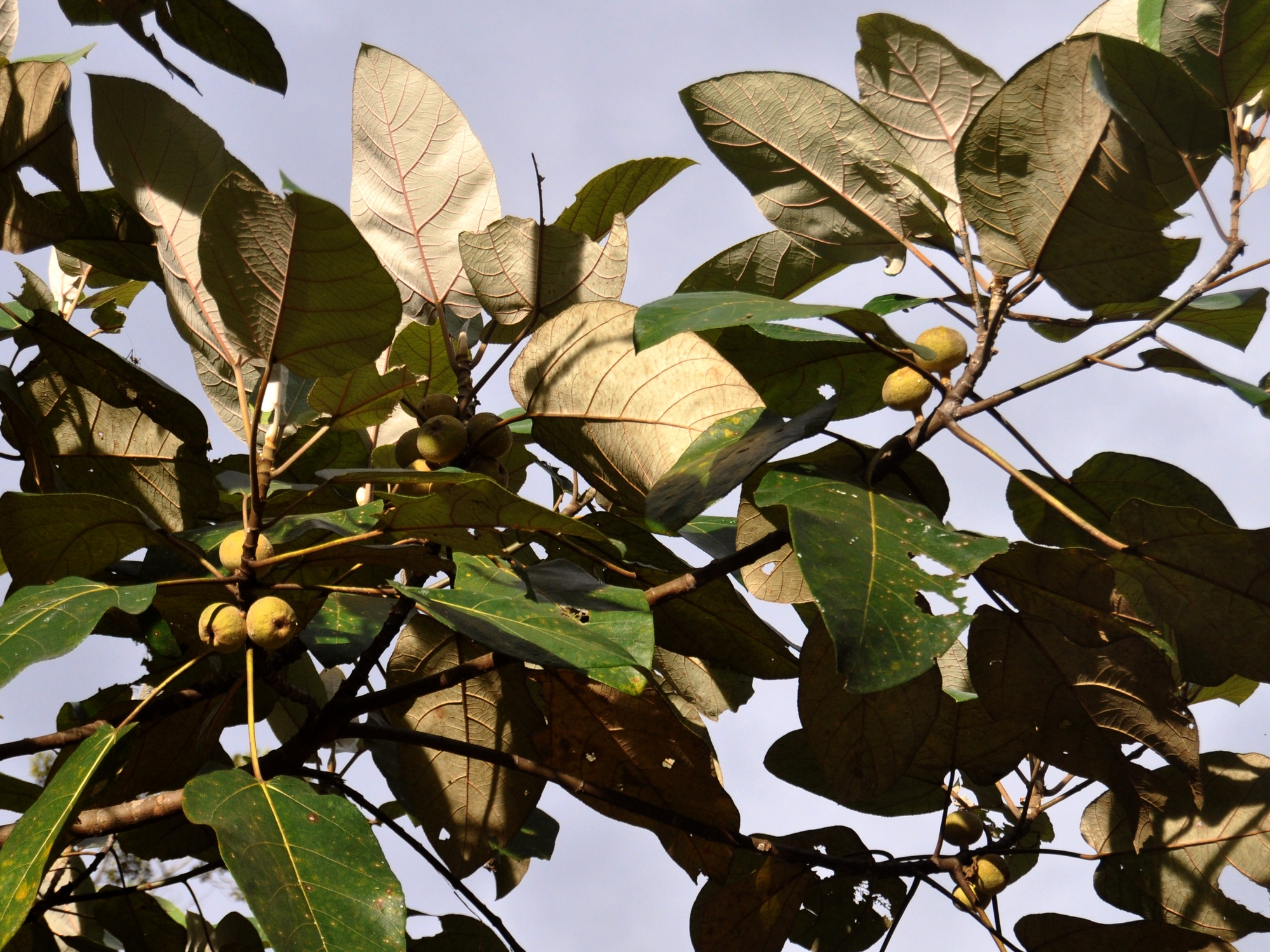 Ficus padana; fruiting twigs. From North Sumatra, Indonesia. Alt. 994 m.